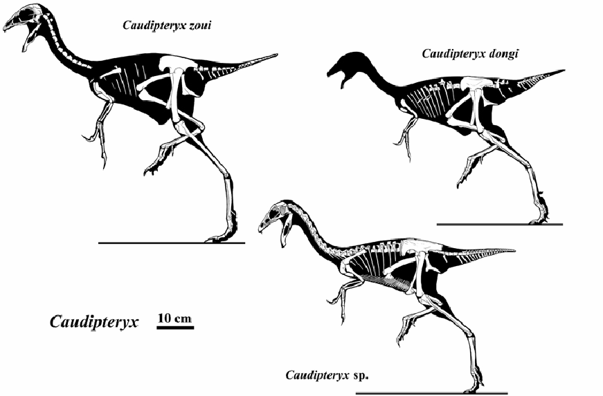 Skeletal reconstructions of Caudipteryx.